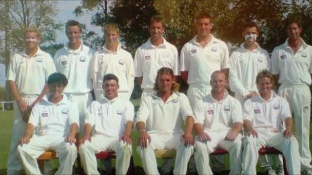 Geelong Cricket Club Premiers 2003/04